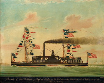 "Arrival of Genl. Z. Taylor & Staff at Balize on the U.S. Steam Ship Monmouth" Depicts return of US General Zachary Taylor from victories in the war with Mexico at Balize, Louisiana, November, 1847.